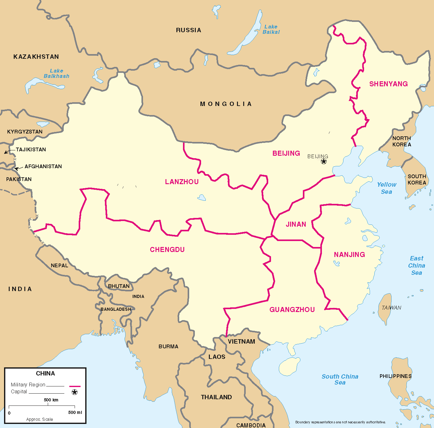 Figure 5. China’s Military Regions